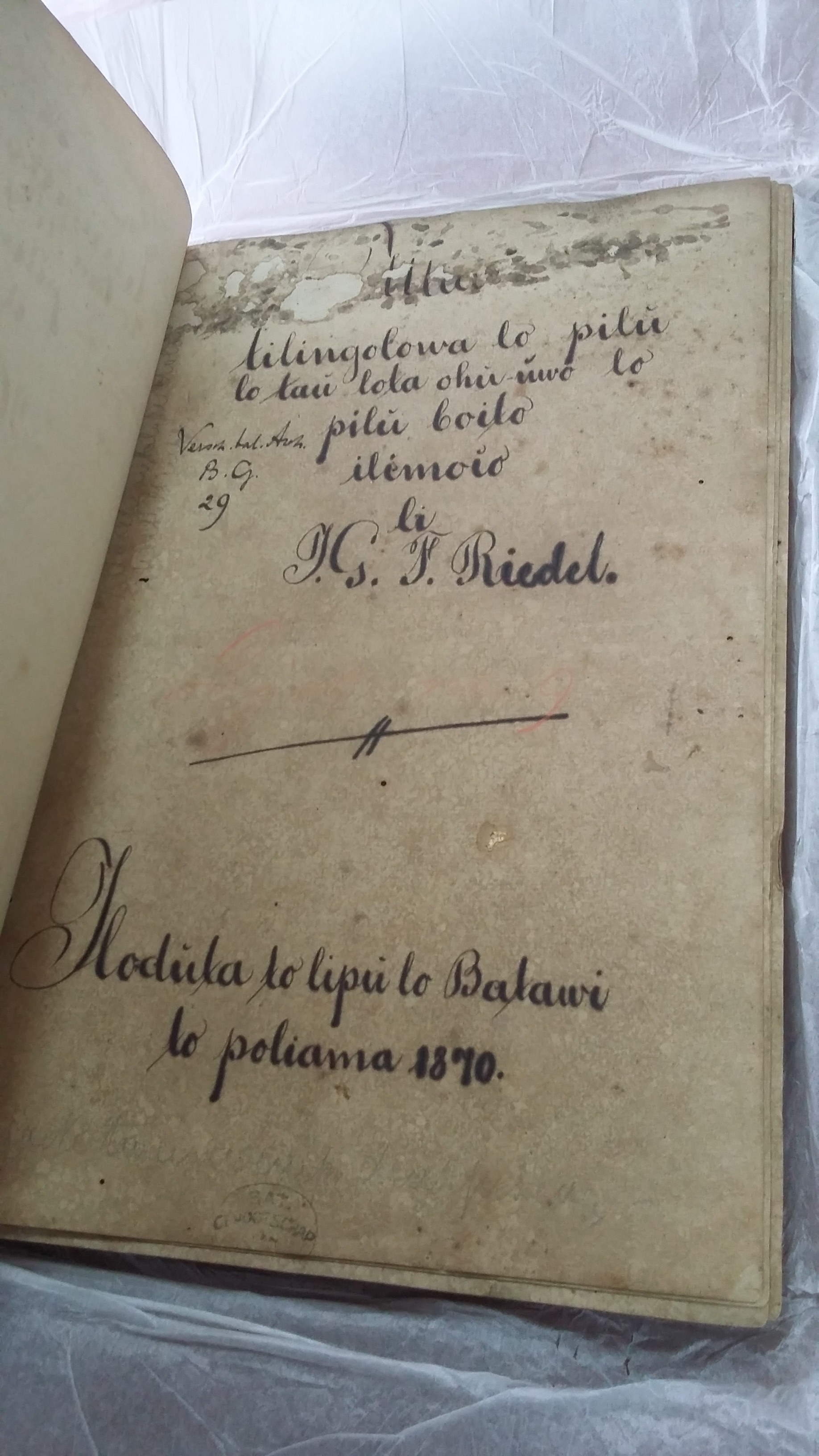 The manuscript in Gorontalo language written by J.G.F. Riedel in 1870, containing 92 pages of European paper, size 33 X 21.2 cm, 20-31 lines of sentence per page. Bahasa Hulontalo: Buku Hulo-hulontalo tiluladiyo lo ulu'u le J.G.F. Riedel to tawunu 1870, otuwa 92 halaman karatasi lo Eropa, tu'udu 33 X 21,2 cm, 20-31 barisi timi'idu halaman